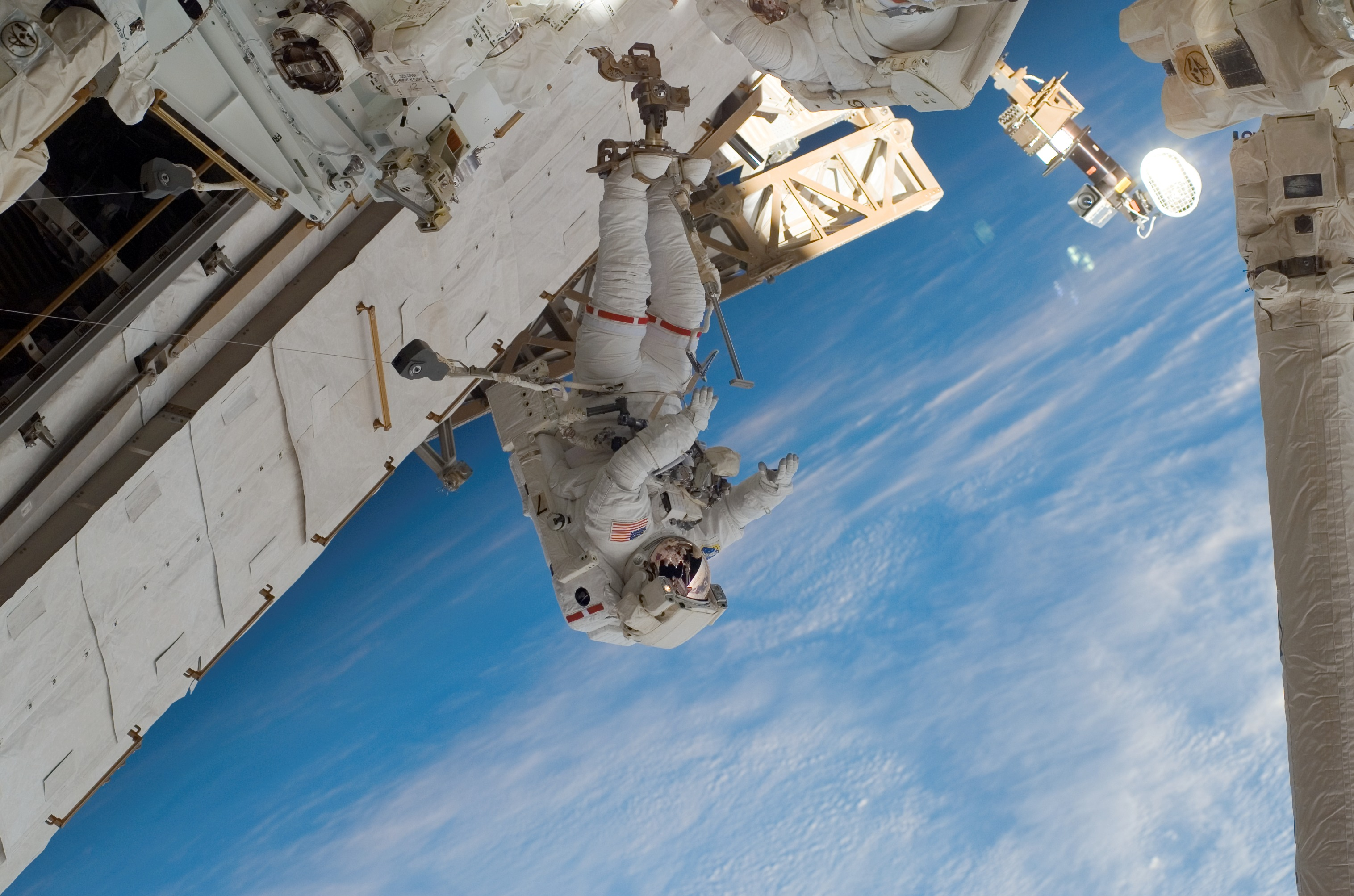 Astronauts Mike Foreman and Rick Linnehan (partially out of frame), both STS-123 mission specialists, participate in the mission's second scheduled session of extravehicular activity (EVA) as construction and maintenance continue on the International Space Station. During the 7-hour, 8-minute spacewalk, Linnehan and Foreman, assembled the stick-figure-shaped Dextre, also known as the Special Purpose Dextrous Manipulator (SPDM), a task that included attaching its two arms. Designed for station maintenance and service, Dextre is capable of sensing forces and movement of objects it is manipulating. It can automatically compensate for those forces and movements to ensure an object is moved smoothly. Dextre is the final element of the station's Mobile Servicing System.